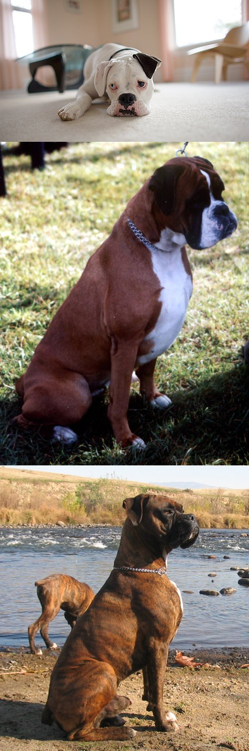 Colors of the Boxer dog (assembled from other images found on wikimedia commons).